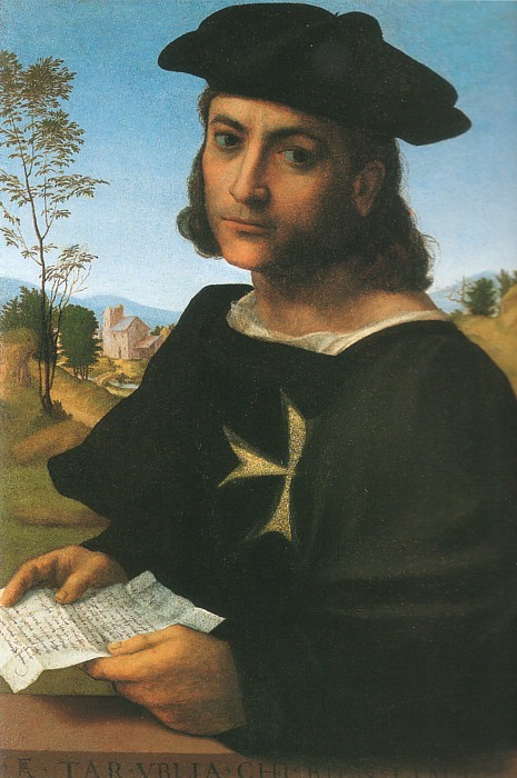 An Unknown Man by Franciabigio, 1514. (National Gallery, London) Portrait of a Knight of Rhodes